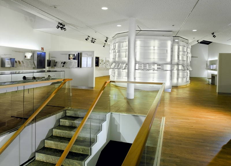 New exhibition at the Bach House in Eisenach.